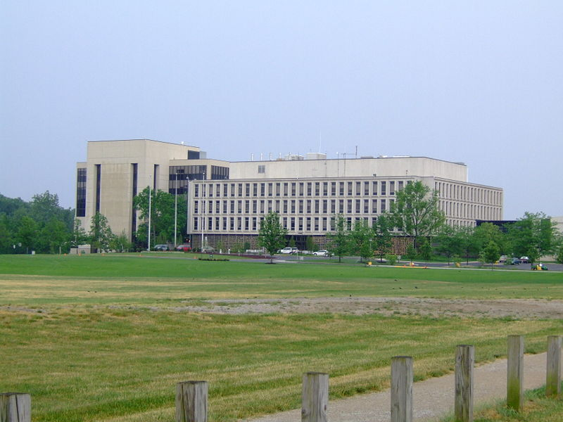 Chemical Abstracts Service headquarters in Columbus. Self made photo.